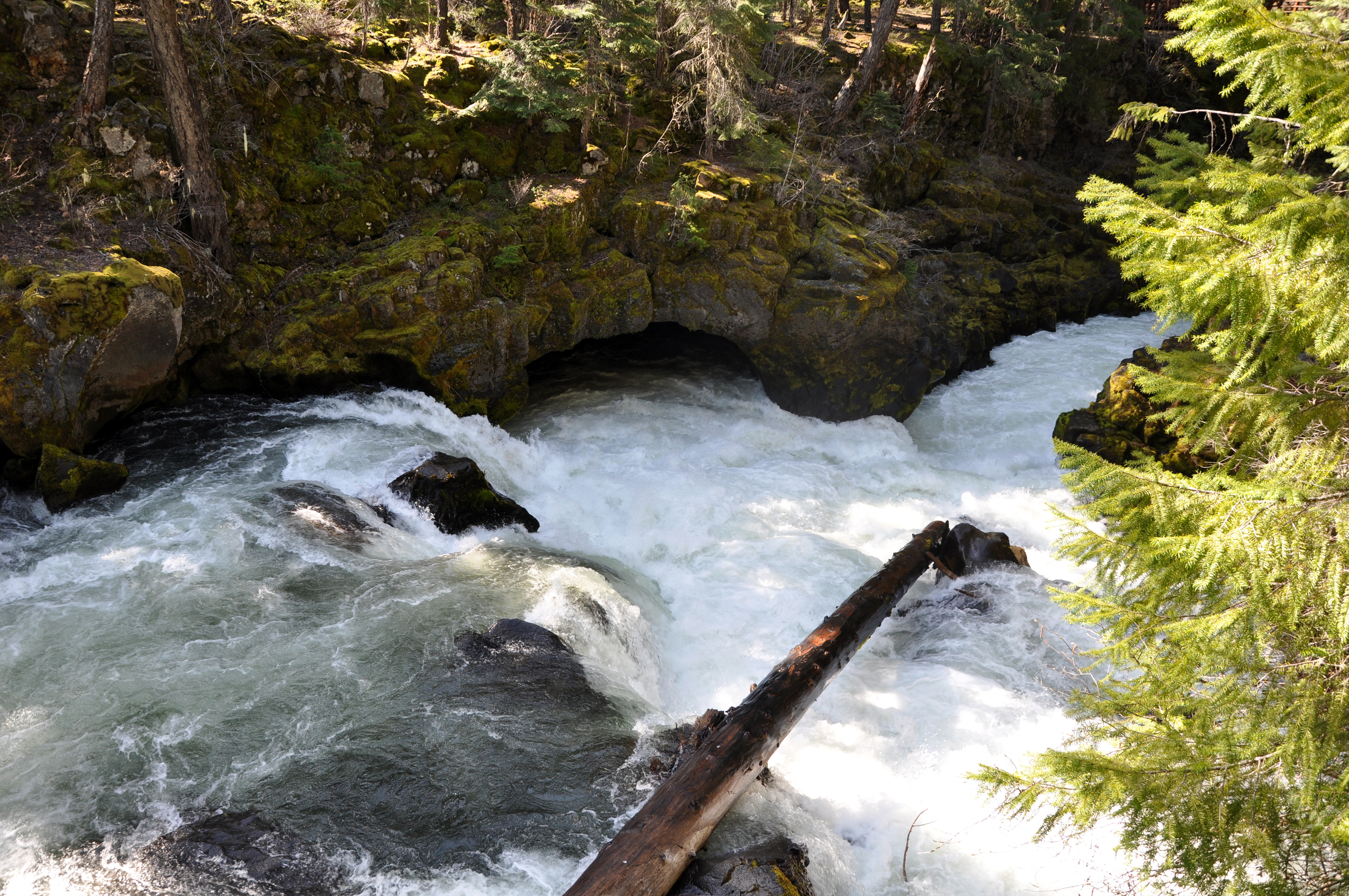 Rogue River below Natural Bridge, near Union Creek in the U.S. state of Oregon.